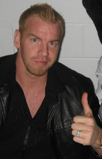 Christian Cage in Plymouth, Michigan. October 20, 2006.